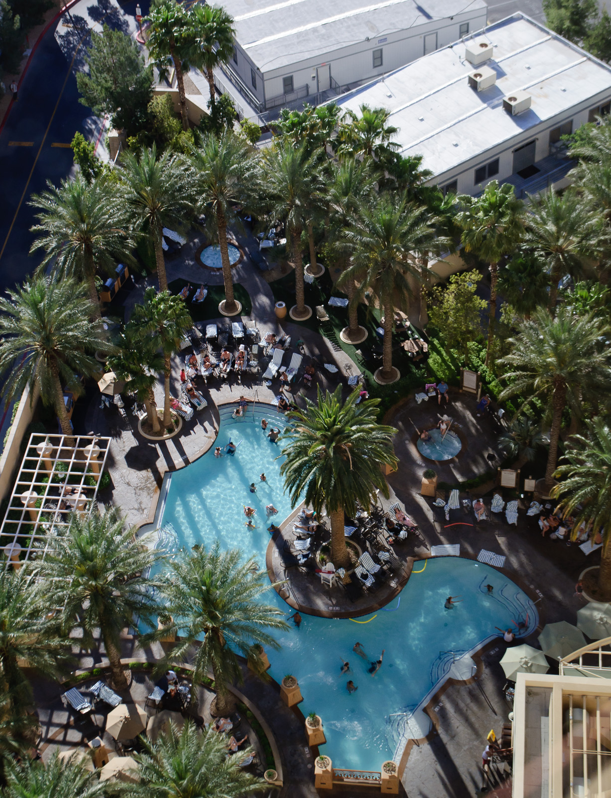 A look at the swimming pool, at the Hilton Grand Vacations on the Las Vegas Strip, located at 2650 S. Las Vegas Blvd. in the northern Strip. The third of four Hilton timeshare condominiums in Las Vegas, this property was built in 2004, and I've been an owner here since 2009. My vantage point is my 26th Floor studio. Hilton's other timeshare condominiums in Las Vegas are at the Flamingo (built in 1994), at Las Vegas Hotel (formerly Las Vegas Hilton, built in 2000), and at the Center Strip (formerly Planet Hollywood Westgate, joined Hilton Grand Vacations in March 2012).